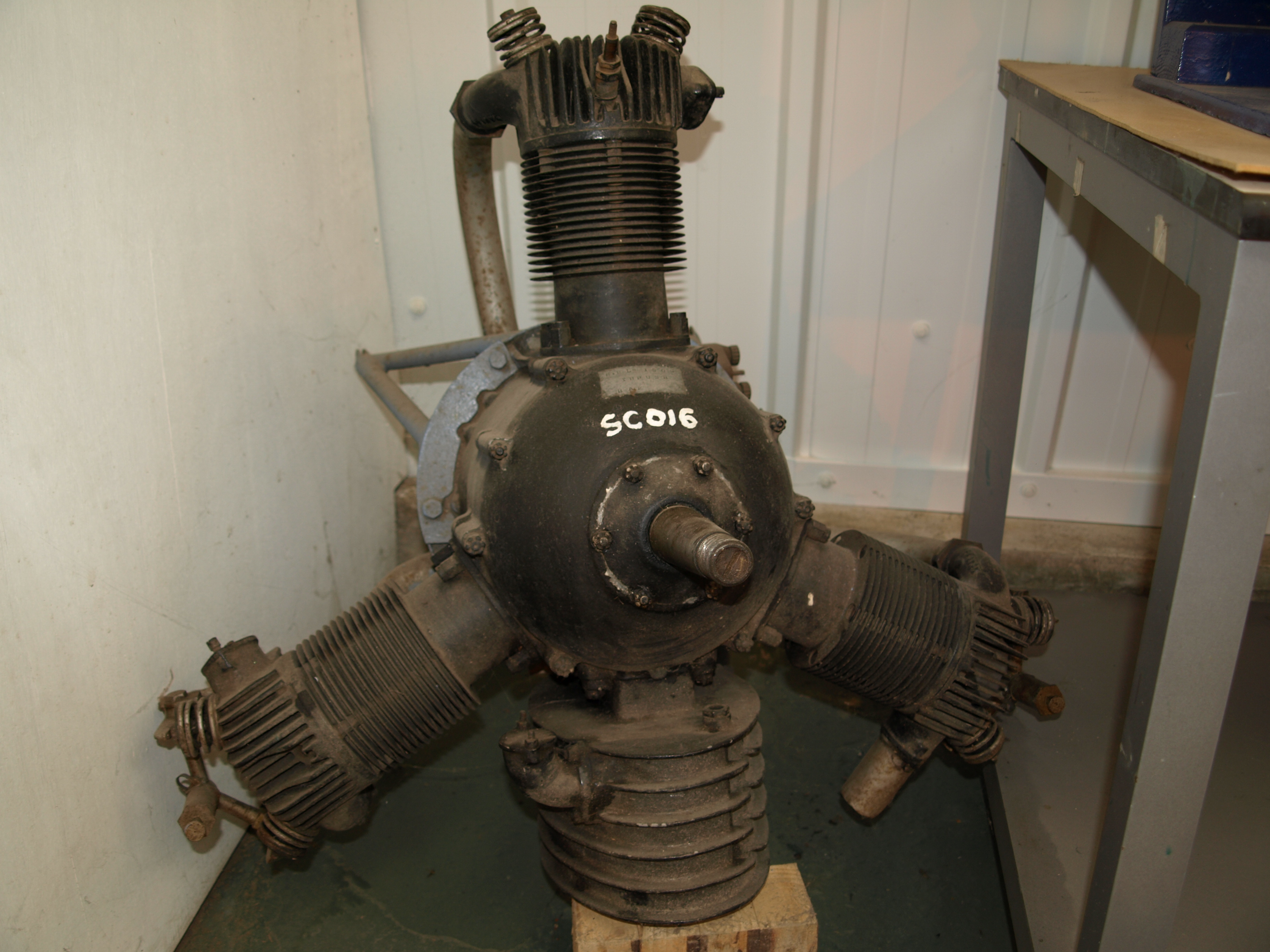 Blackburne Thrush aero engine